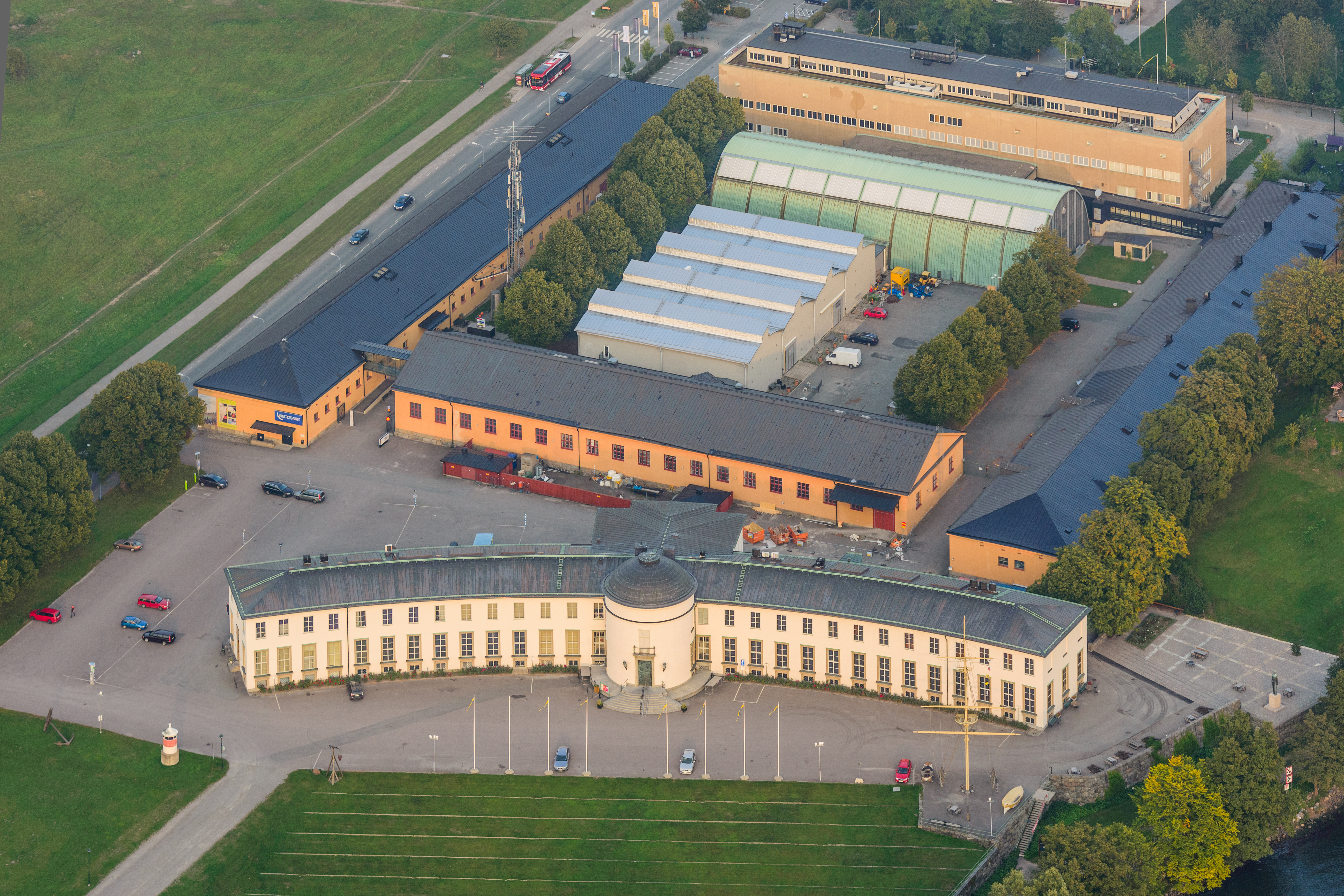 The Maritime Museum (Sjöhistoriska) in Stockholm, Sweden.